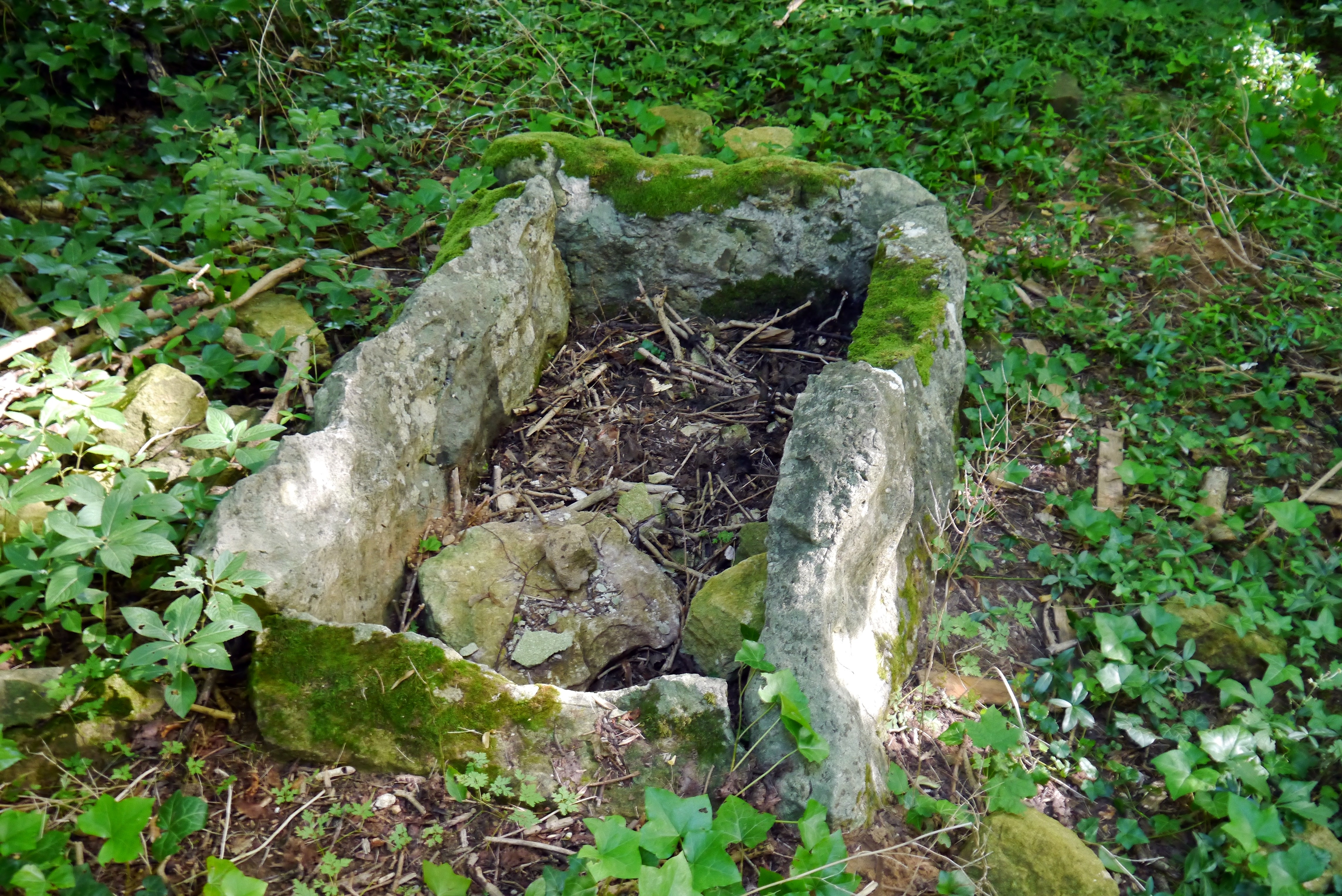 Coffre de Bellevue, Presles, France.